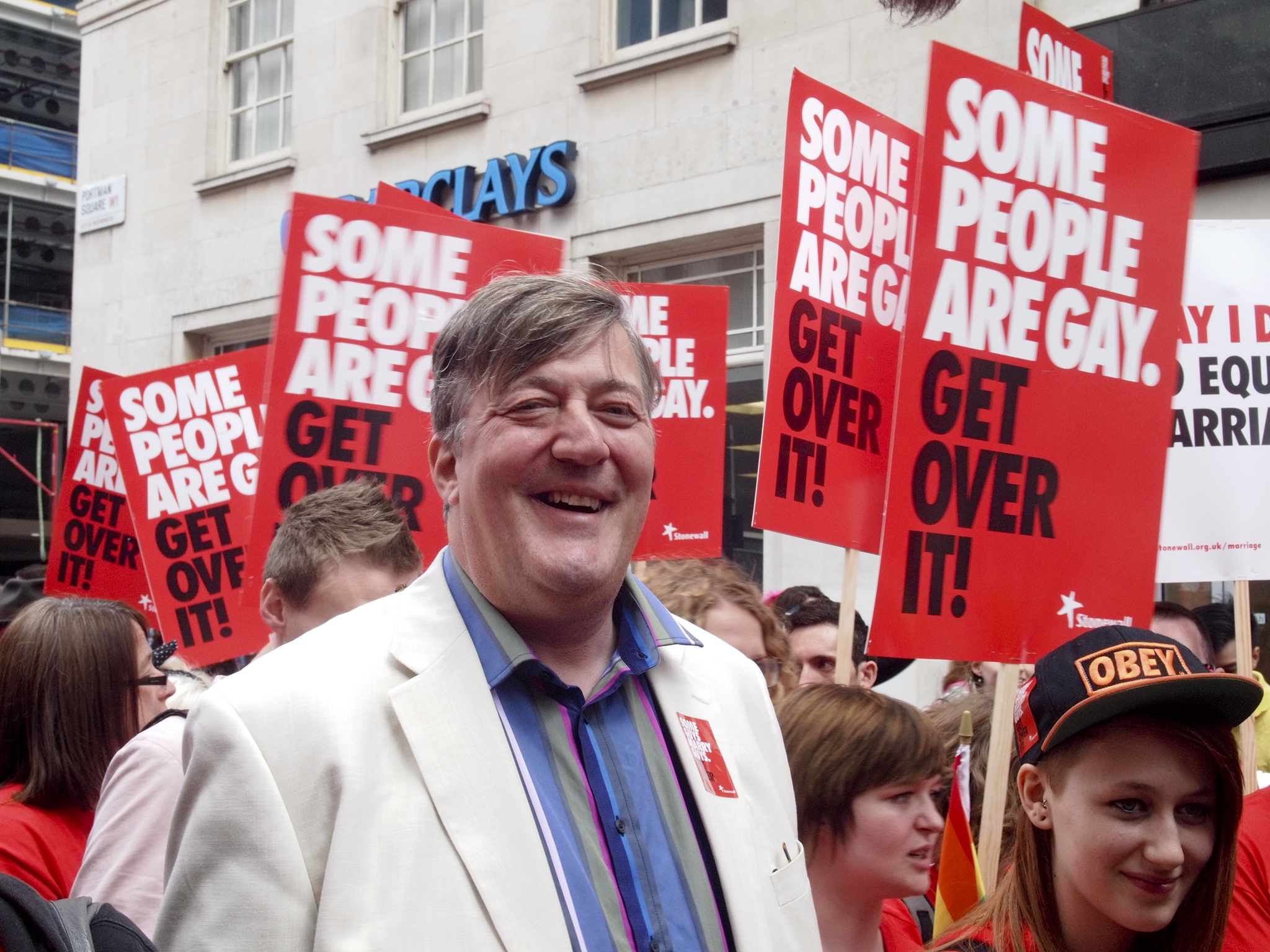 Stephen Fry with Caitlin McQue of Nottingham and other Stonewall marchers at London's WorldPride on 7 July 2012.